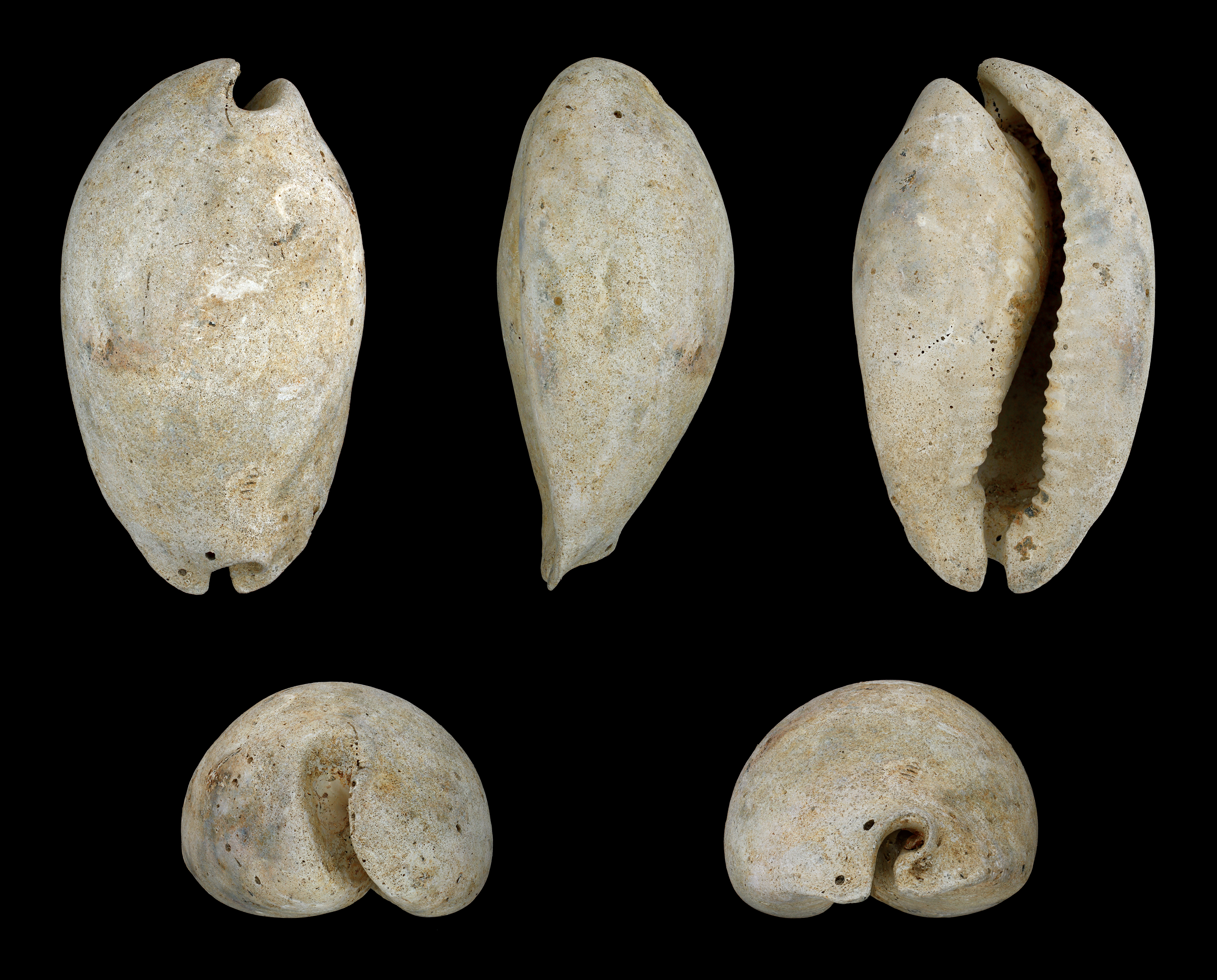 Length 8 cm; Pliocene, La Belle, Florida, USA ; Shell of own collection, therefore not geocoded. Dorsal, lateral (right side), ventral, back, and front view.